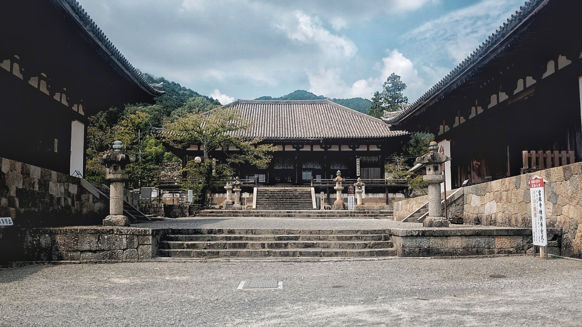 Taimadera Mandala Main hall